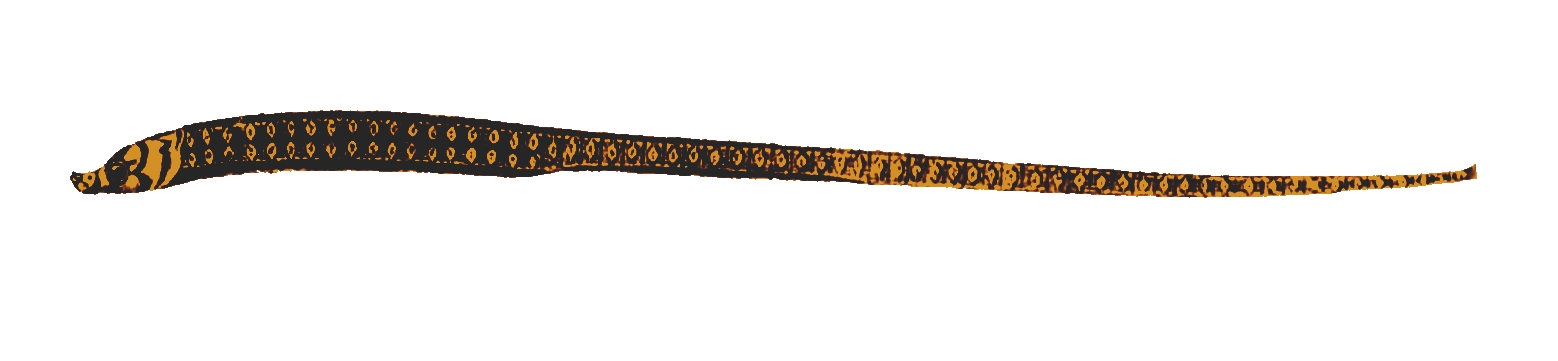 A pipefish, a tinted version cropped from the original monochrome print